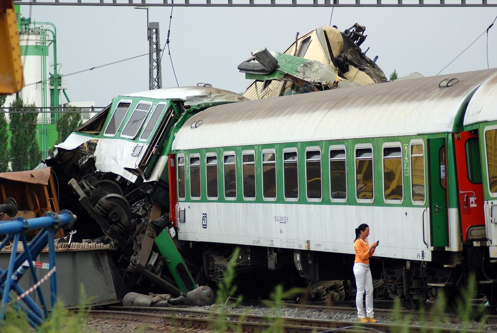 Train accident in Studénka was hapenned on August 8, 2008, Czech Republic